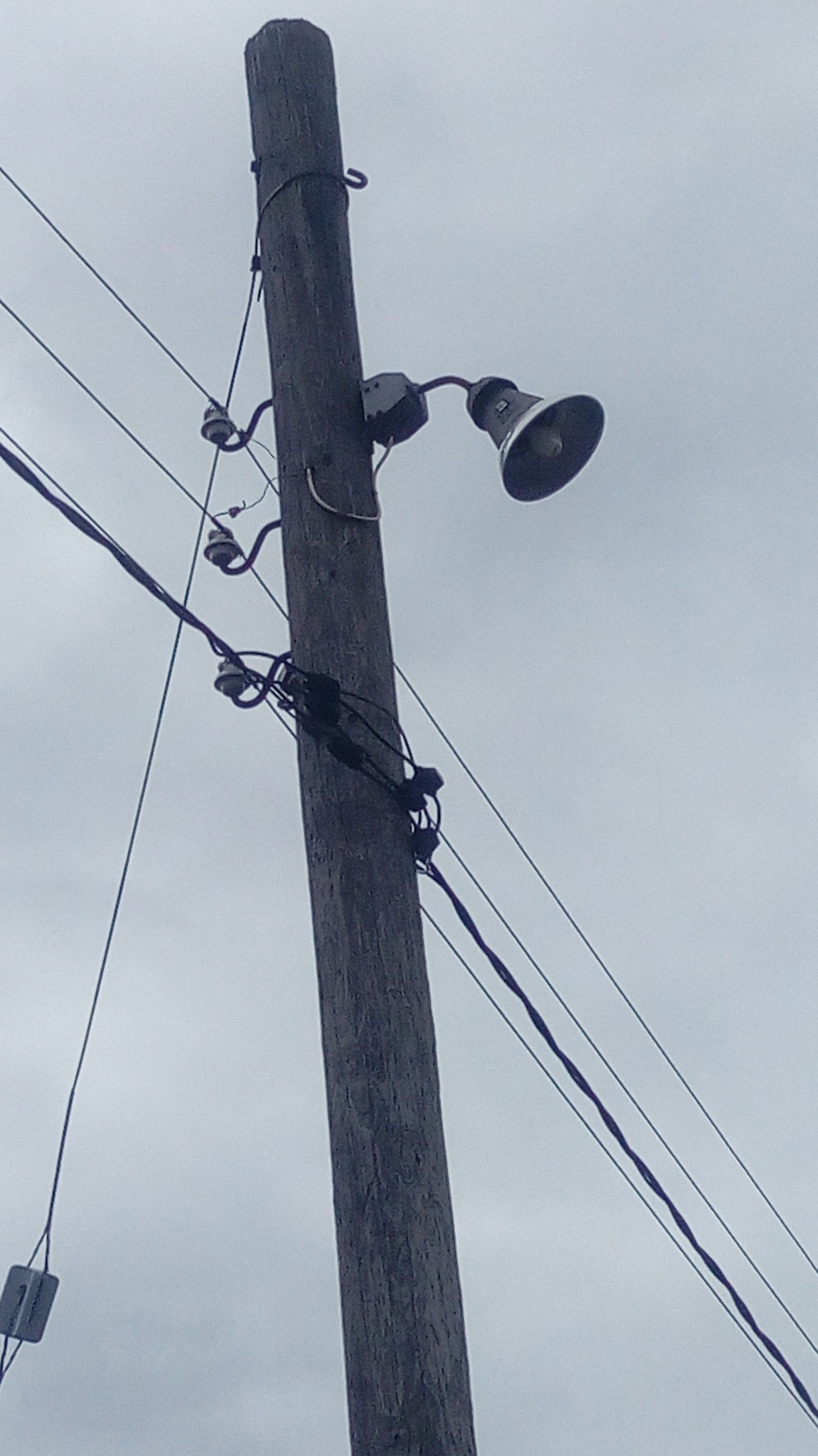 Old Streetlight.